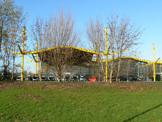 The Spectrum Building (former Renault Distribution Centre), West Swindon